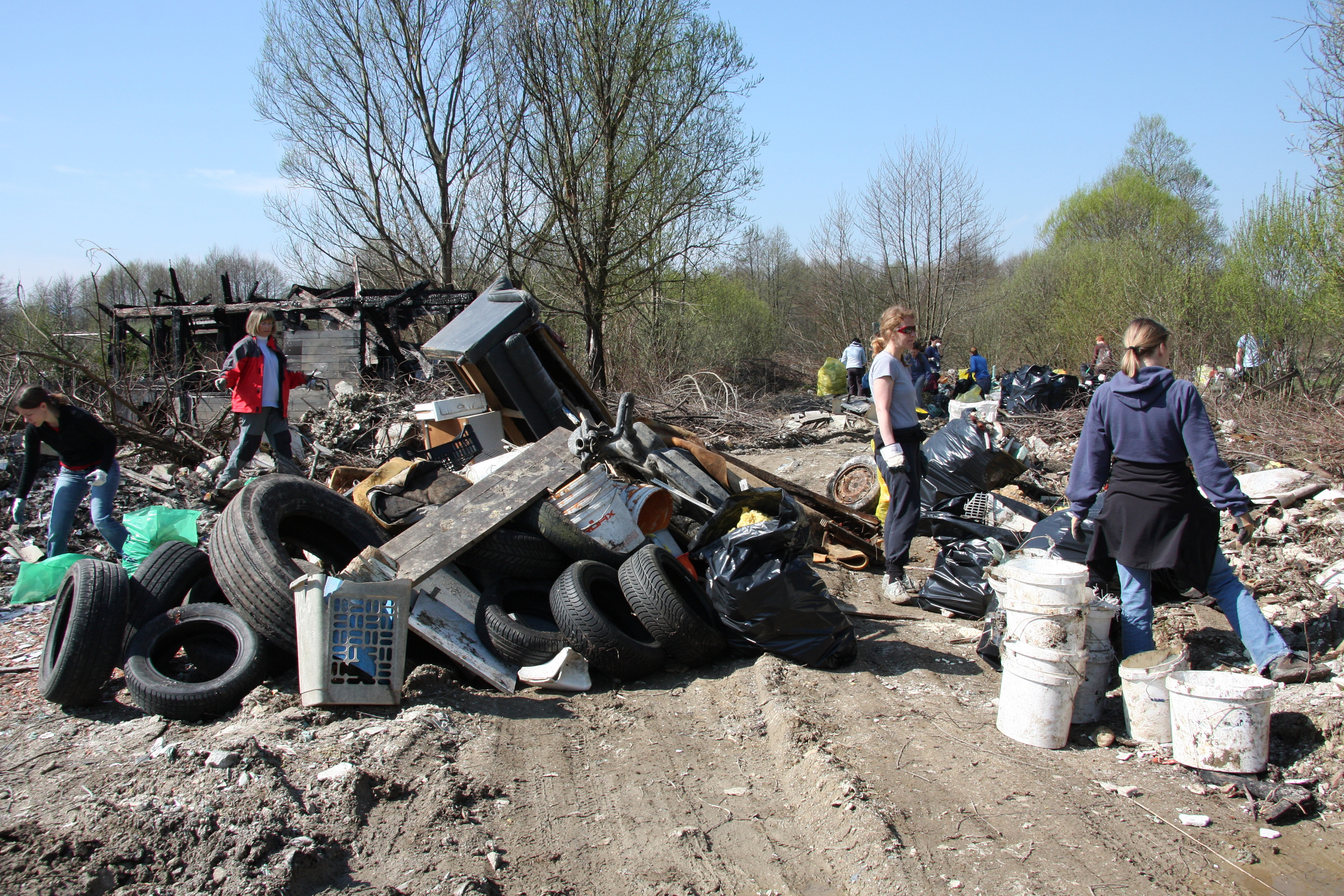 Cleaning an illegal landfill in Rakova Jelša (Ljubljana, Slovenia) during the "Očistimo Slovenijo v enem dnevu!" event. This photo was taken a day before the main event, during a clean-up organized by the National Institute of Biology.